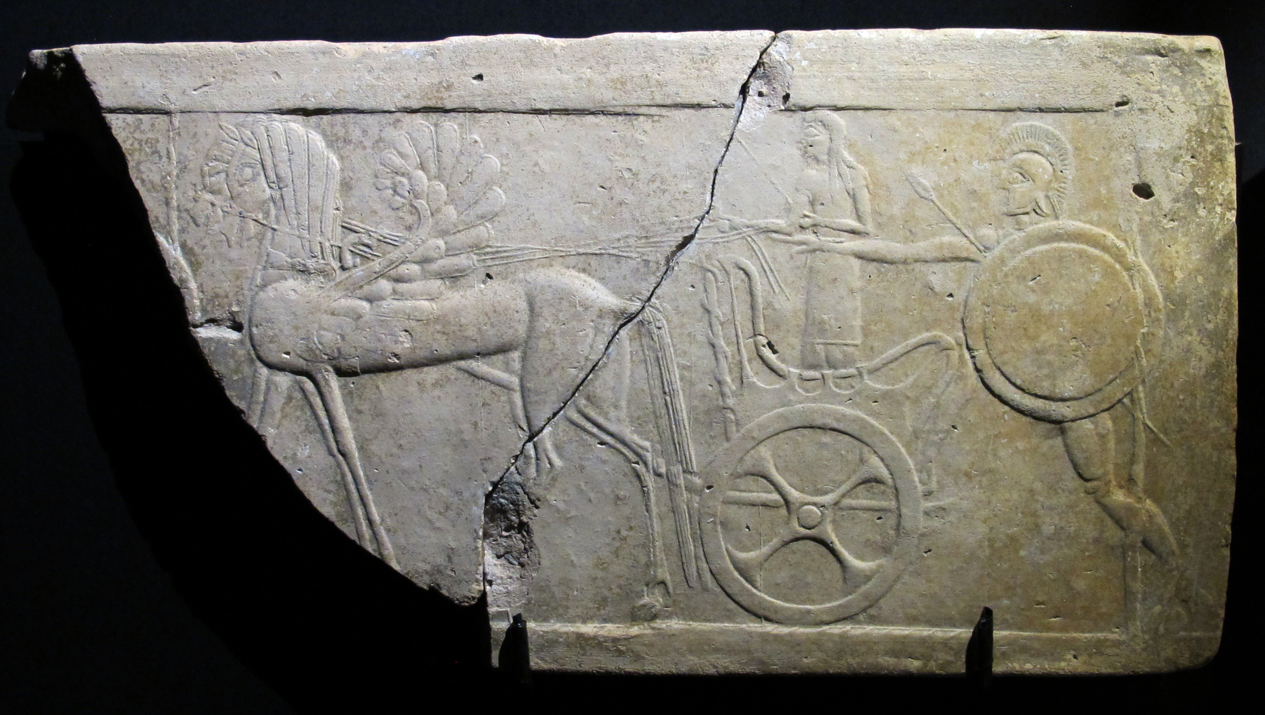 Monsters Exhibition (Palazzo Massimo, Rome, 2014)